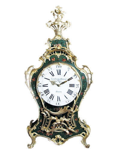 Photo of a console clock made by the German royal watchmaker Louis George at Berlin. Louis George was the 'Watchmaker to the King' Frederick the Great king of Prussia in Berlin, capital of Prussia, providing watches and clocks to sovereigns all over Europe including the king of France.